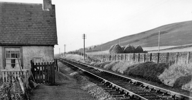 Site of Birchfield Halt. View NW, towards Elgin; ex-GNS Keith - Dufftown - Craigellachie - Elgin line. Halt closed 7/5/56, line closed to passengers 18/10/65, goods 4/11/68.